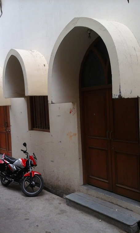 A street view of the Mosque at Manasa, MP.